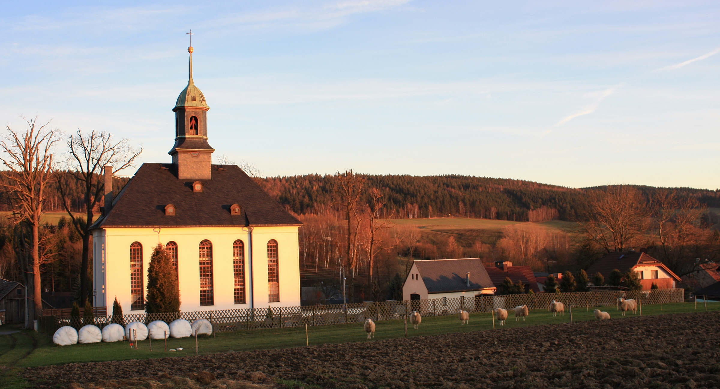 Schwarzbach (Elterlein), Germany: Church.